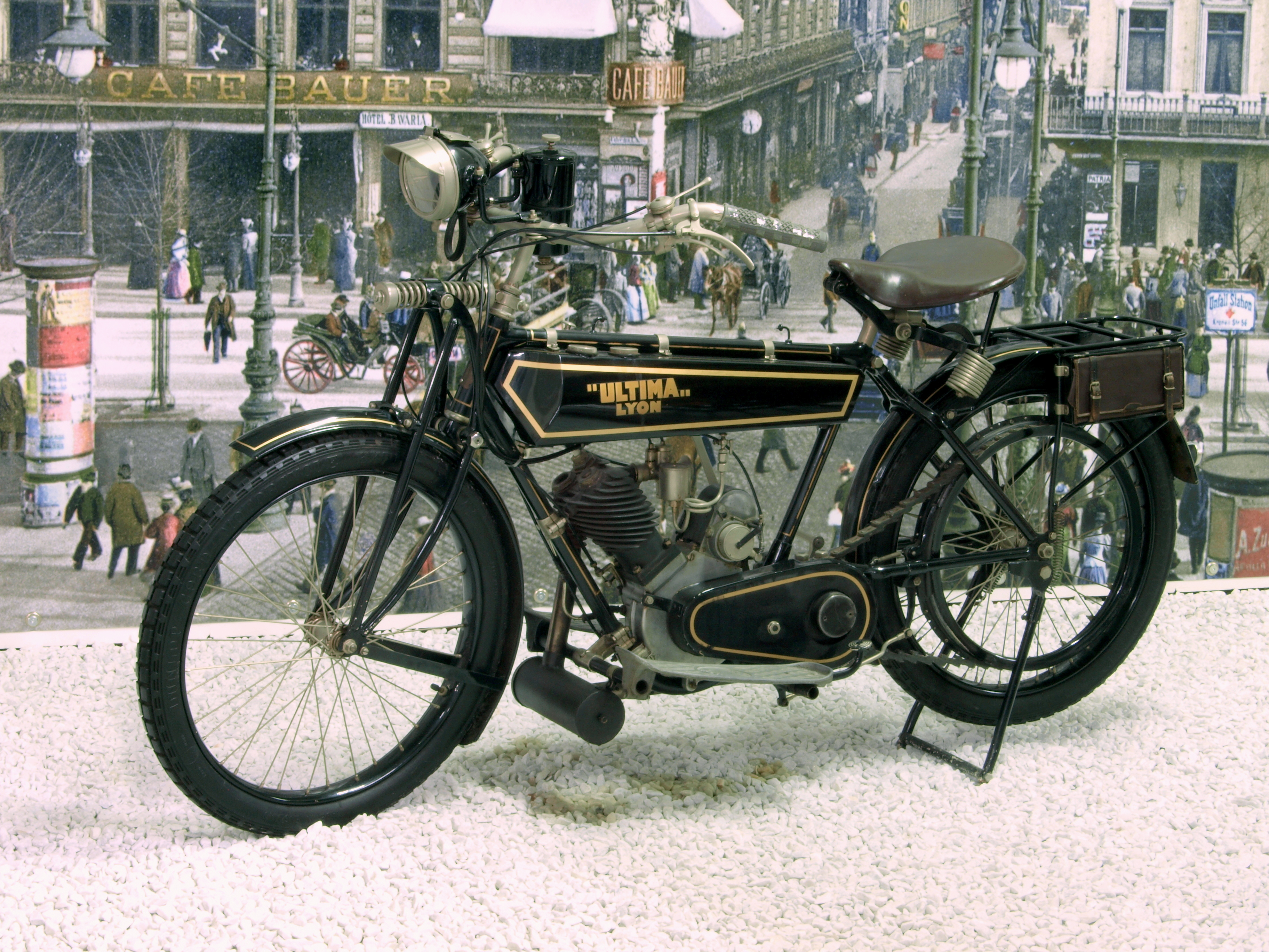 Ultima EB 1064 400 cc (1922-1923); photographed at the Auto & Technic museum Sinsheim.